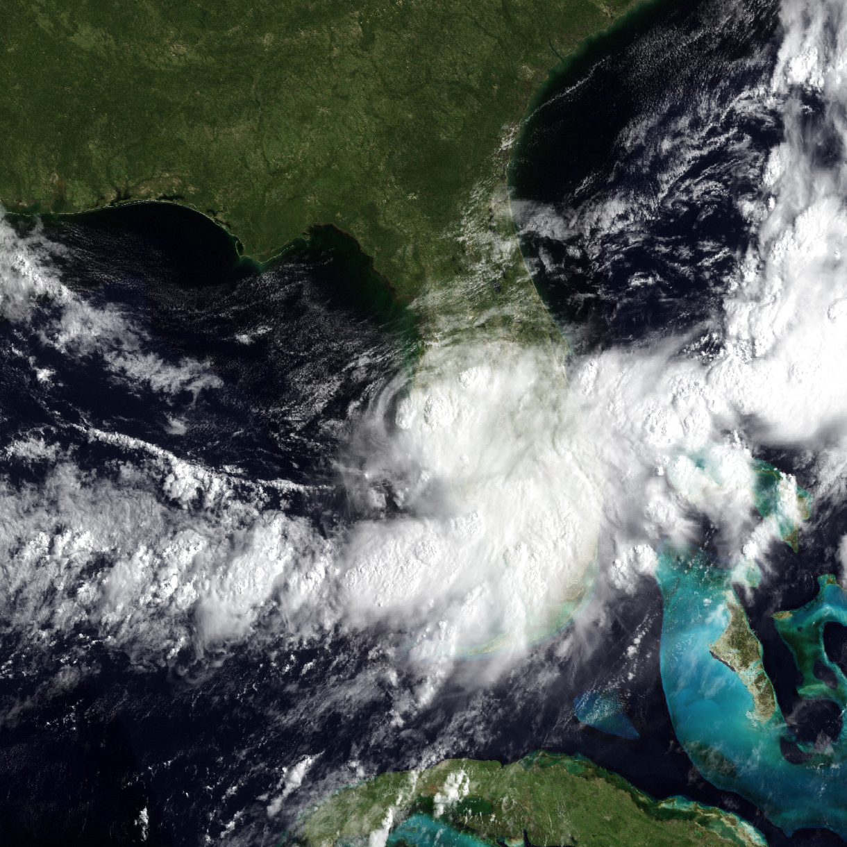 Satellite image of Tropical Storm Emily at 14:15 UTC on July 31, 2017 situated just west of the Florida peninsula.